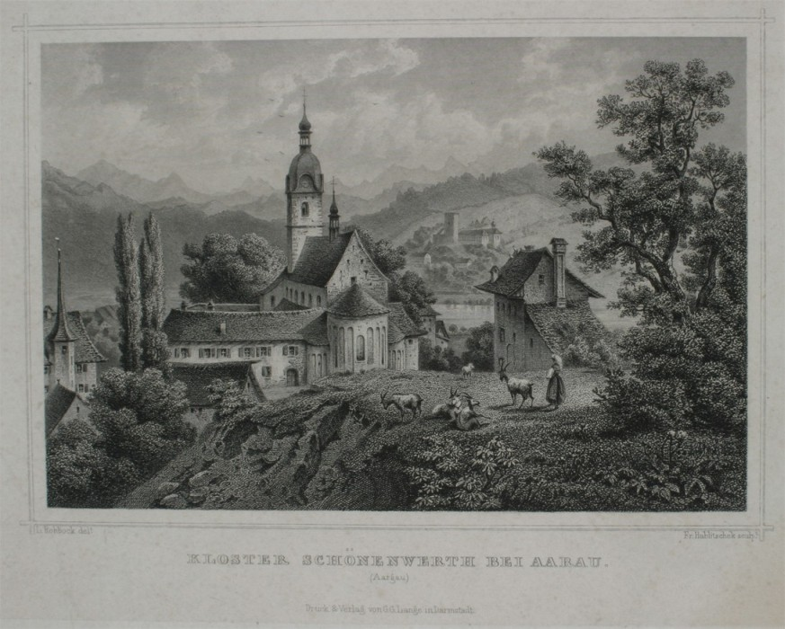 Steel engraving depicting the chapter of Schönenwerd (Canton of Solothurn, Switzerland) on the river Aar, around 1860. The legend wrongly mentions a "Kloster" (monastery), also states the wrong canton (Aargau).